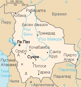 Map of Bolivia on Macedonian.